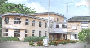 Combermere School Image